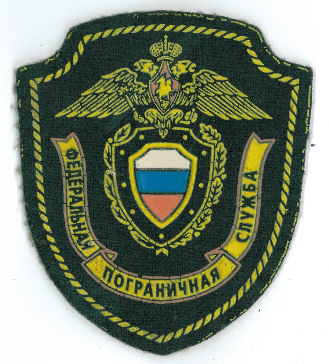 Sleeve Emblem of Russian FPS